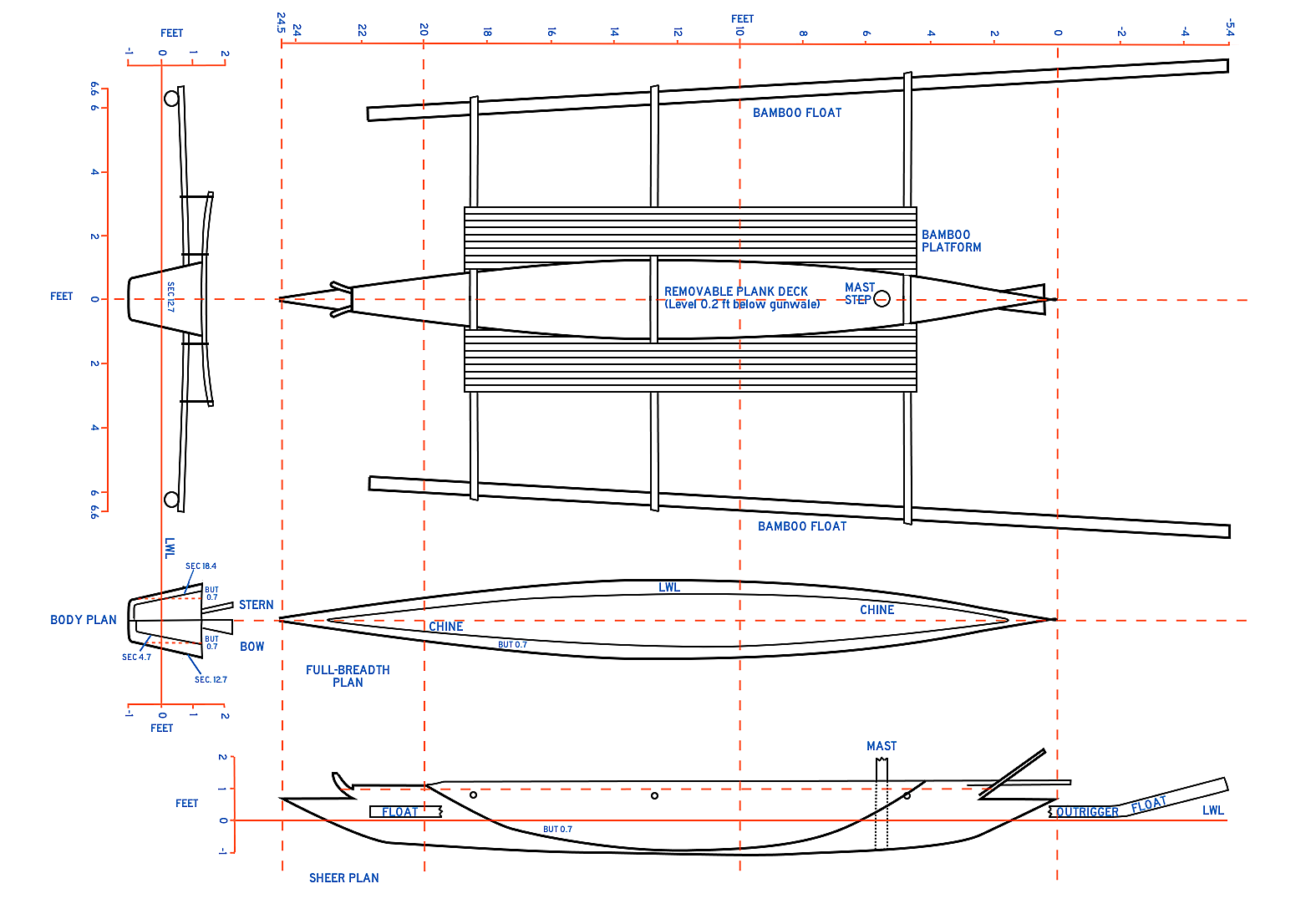 Plan, midships section, and lines of a vinta. Based on Doran, Edwin, Jr., Texas A&M University (1972). "Wa, Vinta, and Trimaran". Journal of the Polynesian Society. 81 (2): 144–159.